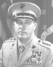 General Raymond Davis (USMC), Medal of Honor recipient; Assistant Commandant of the Marine Corps. From official USMC biography